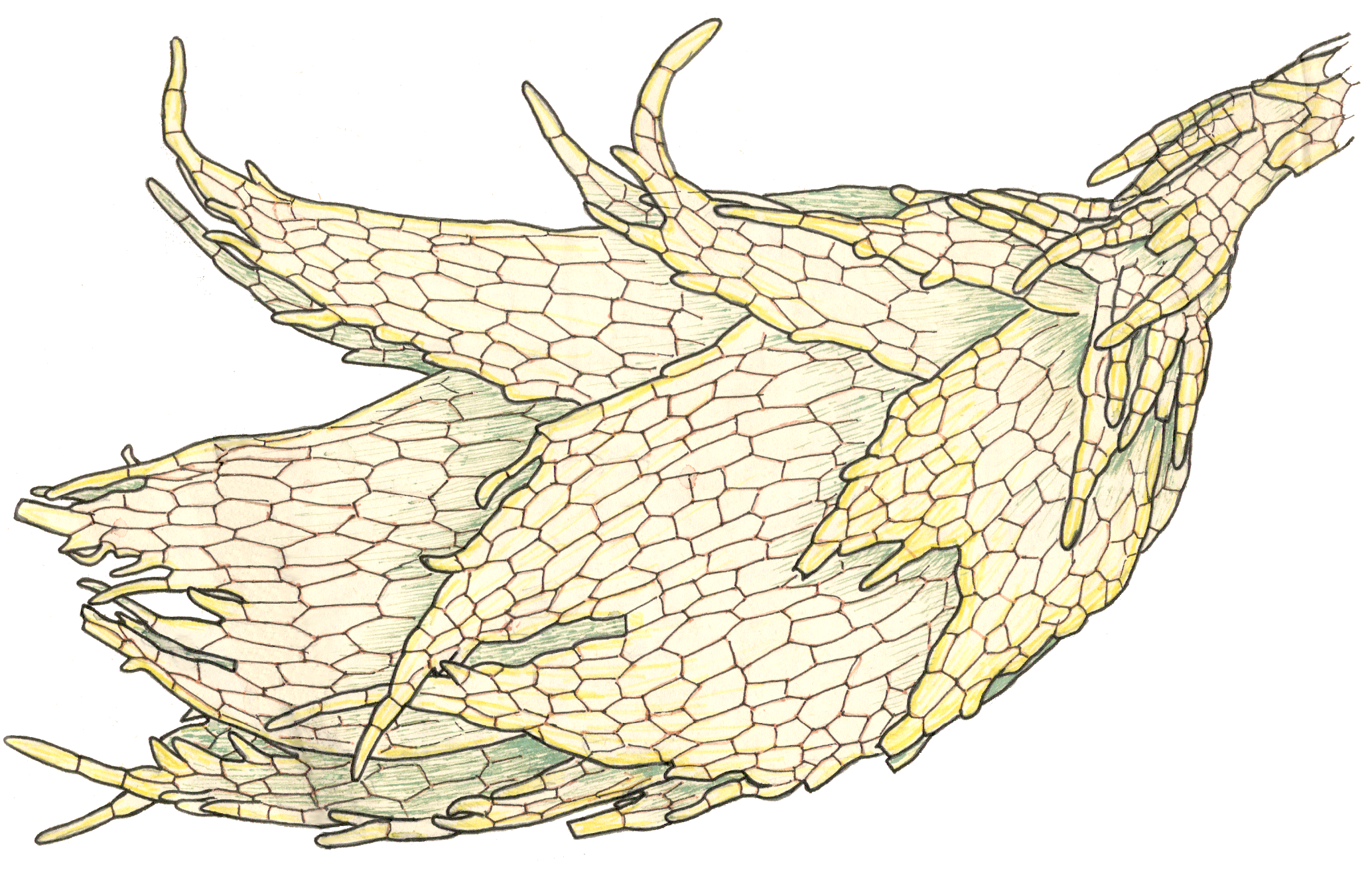 Marsupella sprucei (Hepaticae) perianth